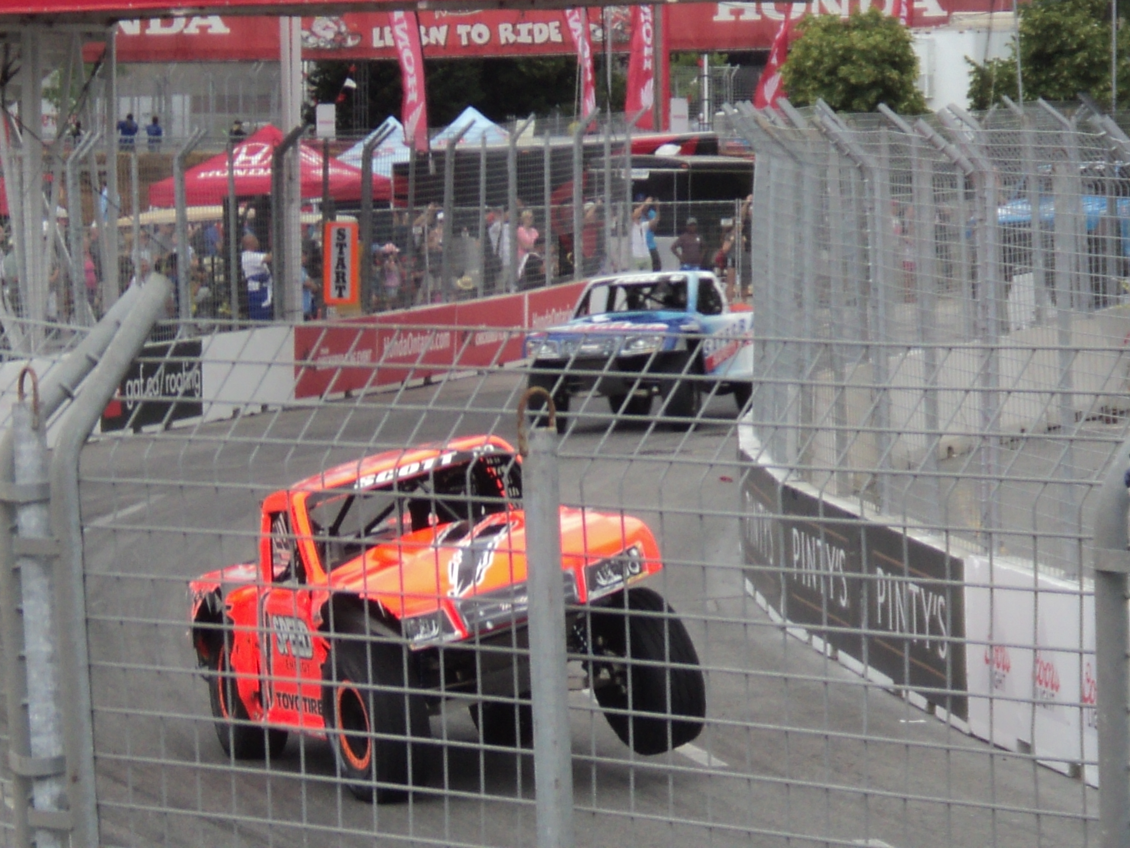 Trucks leaning to one side going around the corner on three wheels, high rate of speed.